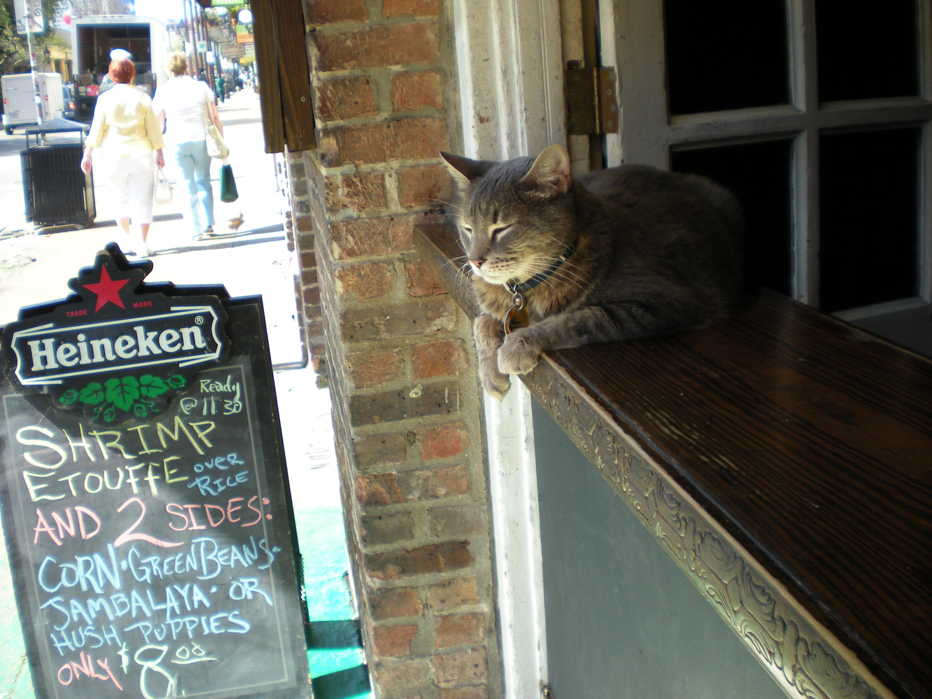 Lazy Afternoon in French Quarter - New Orleans